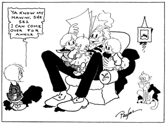 The main characters of Say, Pop!: Pop, the kiddies, the cat, and Ambrose, the "boy next door."